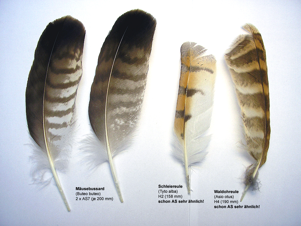 description: Two secondaries of a "Common Buzzard" (Buteo buteo), two inner primaries of Owls (Tyto alba, Asio otus), which look quite similar to secondaries source: own photo photographer/illustrator: S. Seyfert (Stse 09:00, 5 March 2006 (UTC)) date: 2006-03-04 note